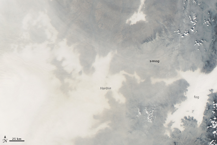 NASA Earth Observatory satellite photo showing smog and fog in the vicinity of Harbin, 21 October 2013